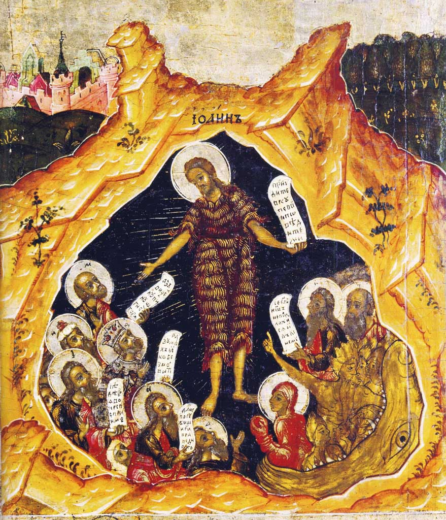 John Baptist preaching in hell. fragment of icon